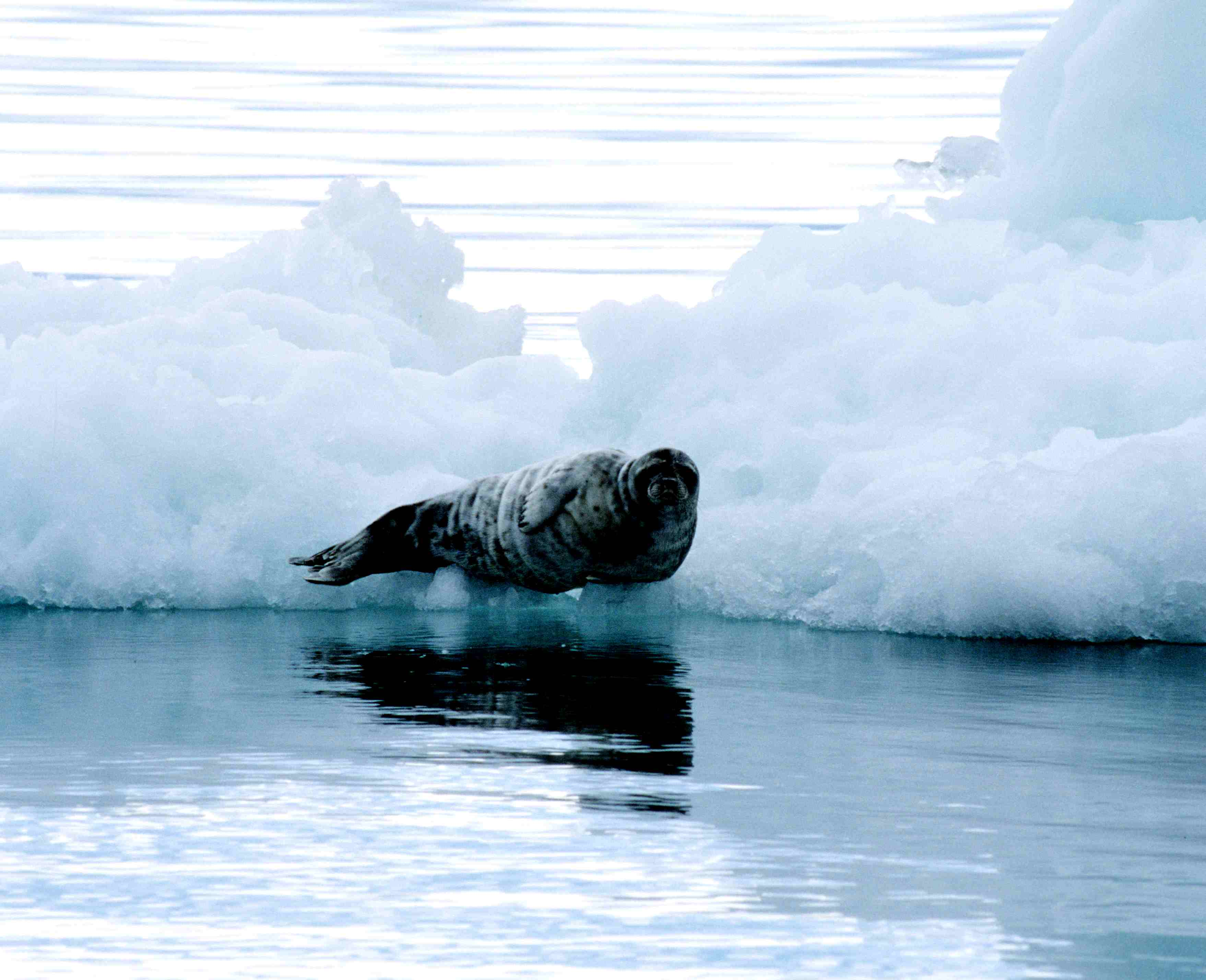 Bearded seal, Erignathus barbatus, on ice flow in Wager Bay (Ukkusiksalik National Park, Nunavut, Canada)